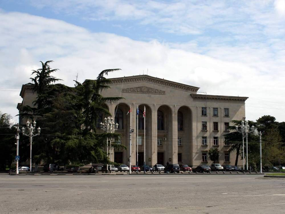 Kostava Street, Rustavi, Georgia. The main street of the city.